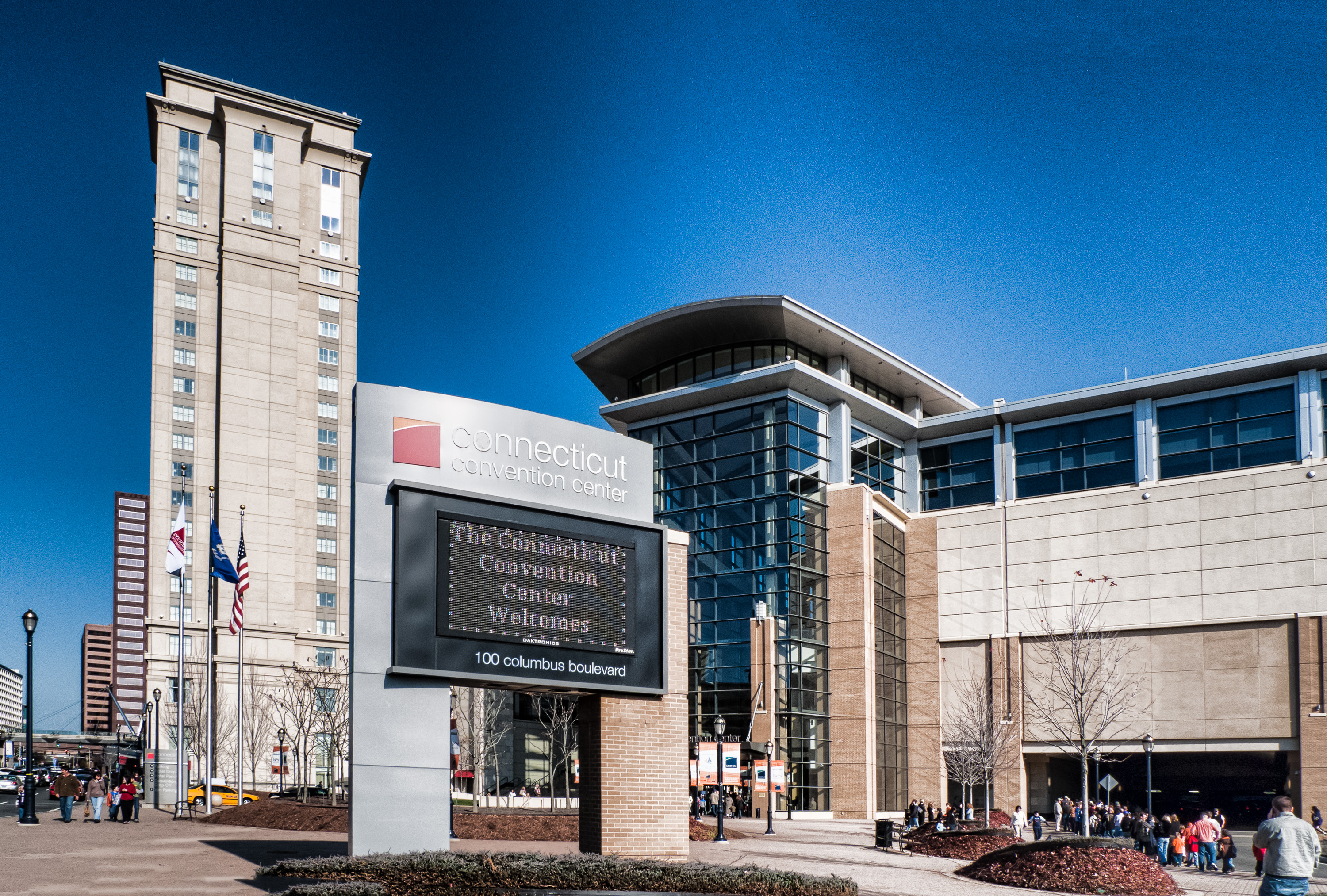 The Connecticut Convention Center hosted Lego Kidsfest 2009, Hartford, CT.